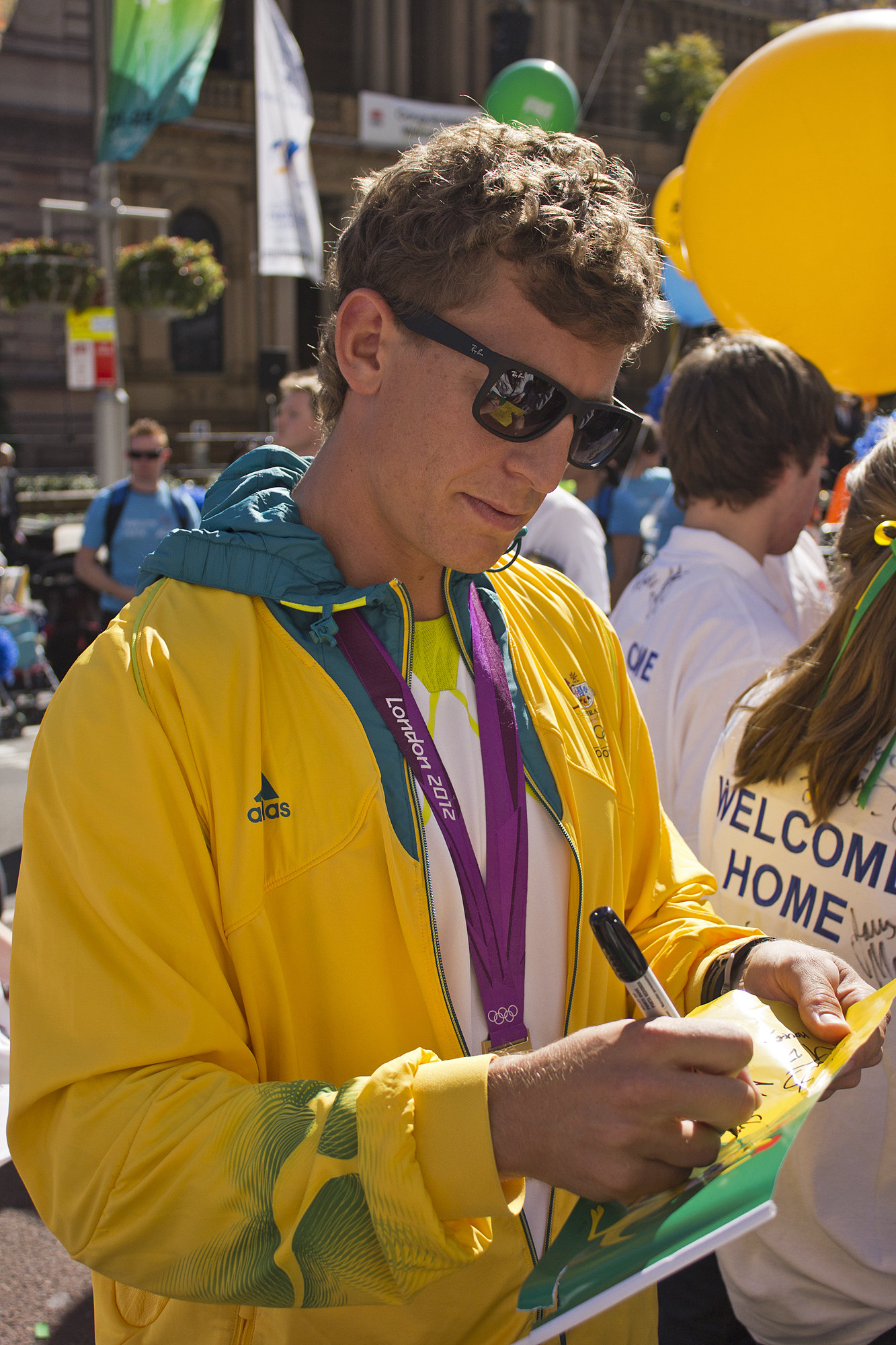 Murray Stewart at the Welcome Home parade in Sydney.